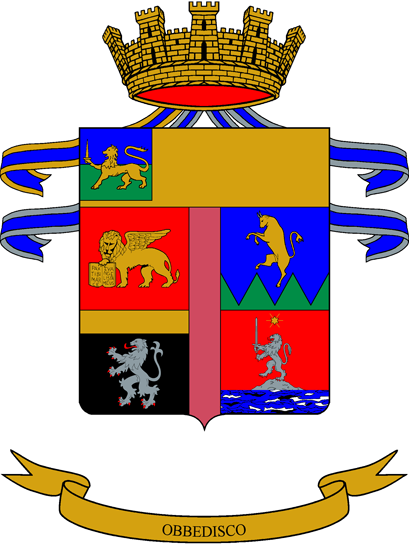 Coat of Arms of the 182nd Armoured Infantry Regiment "Garibaldi"; Italian Army